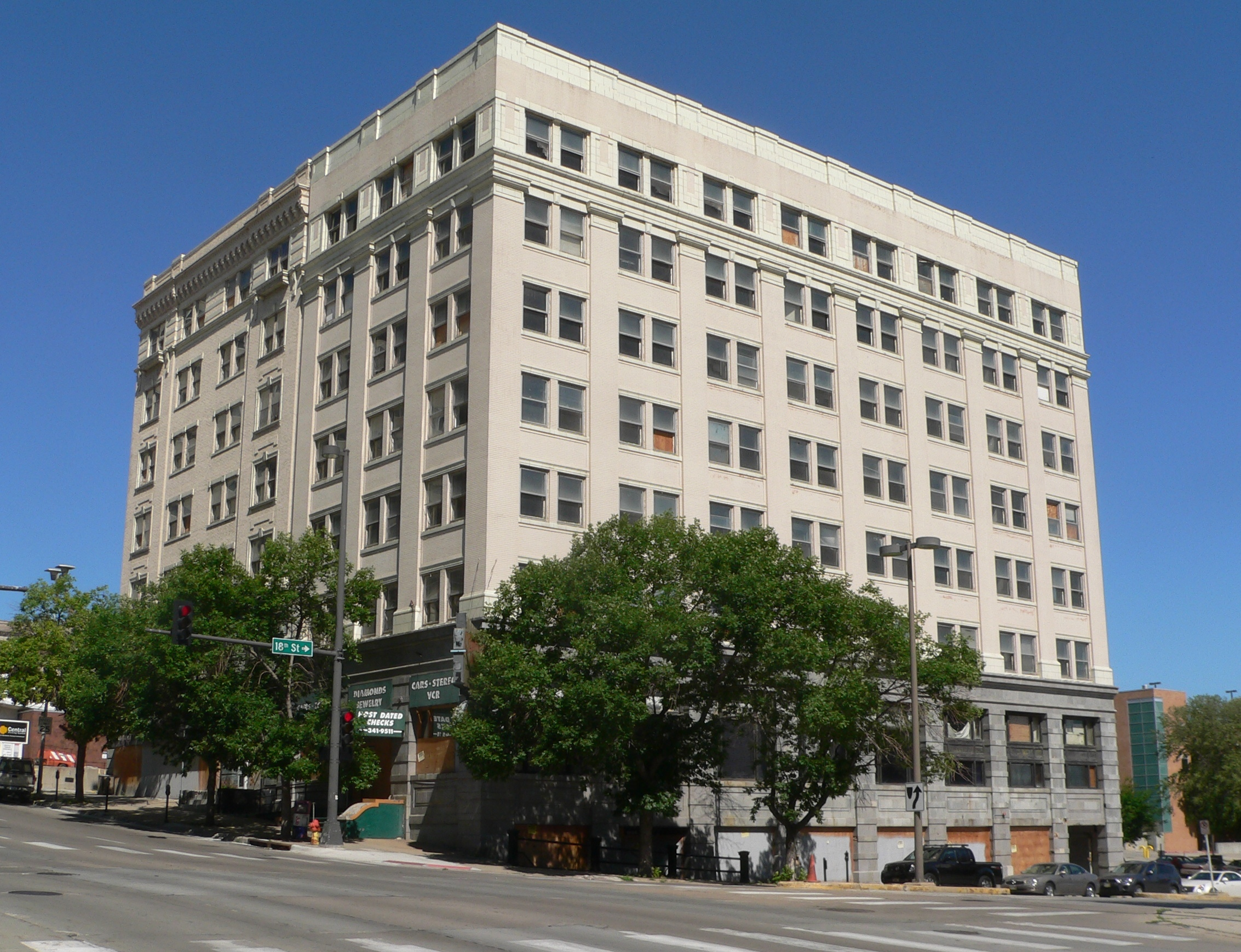 The Logan, located at 1804 Dodge Street in Omaha, Nebraska; seen from the southeast.